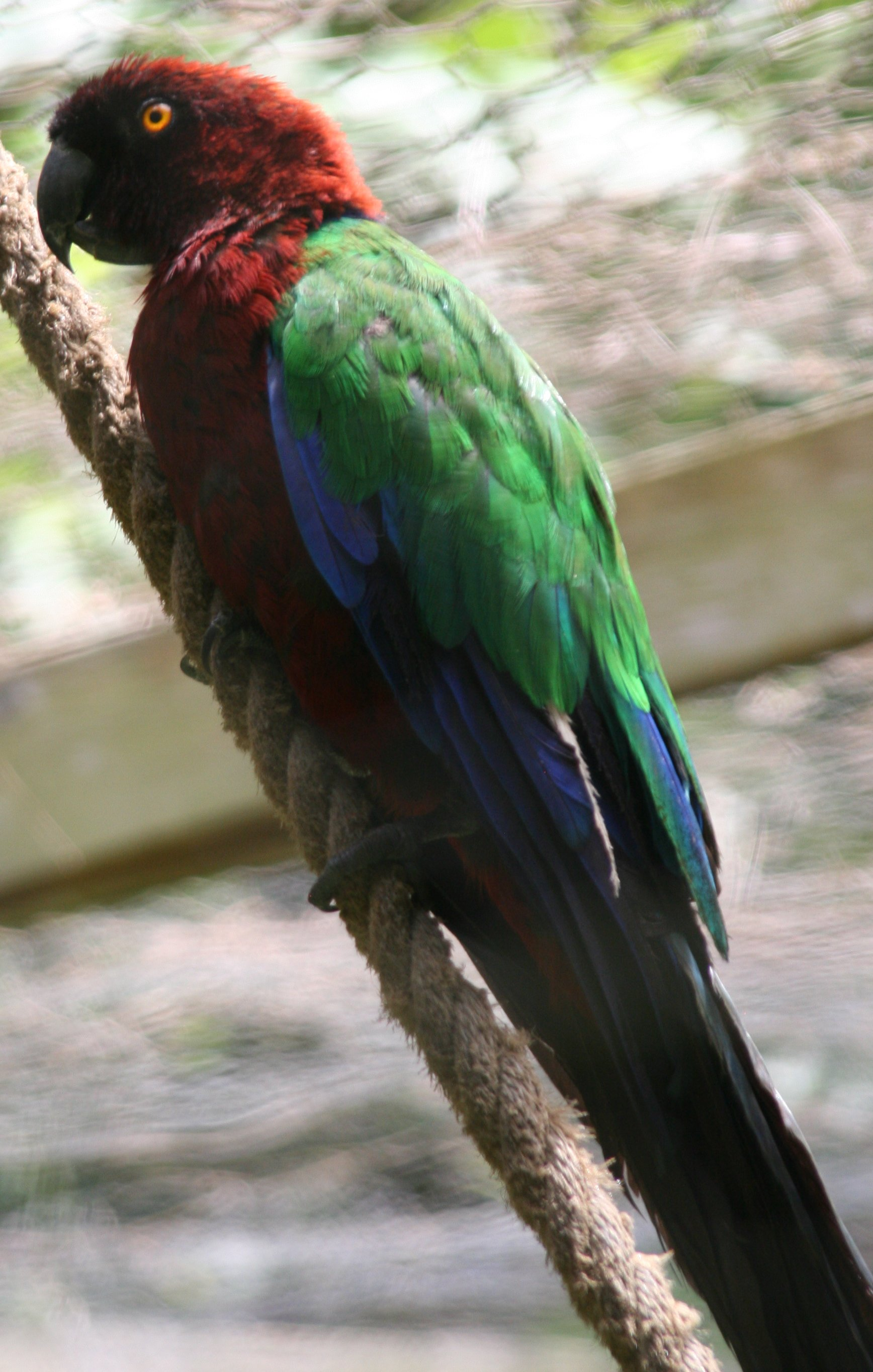 Red Shining-parrot Prosopeia tabuensis in captivity, Fafa Island, Tonga